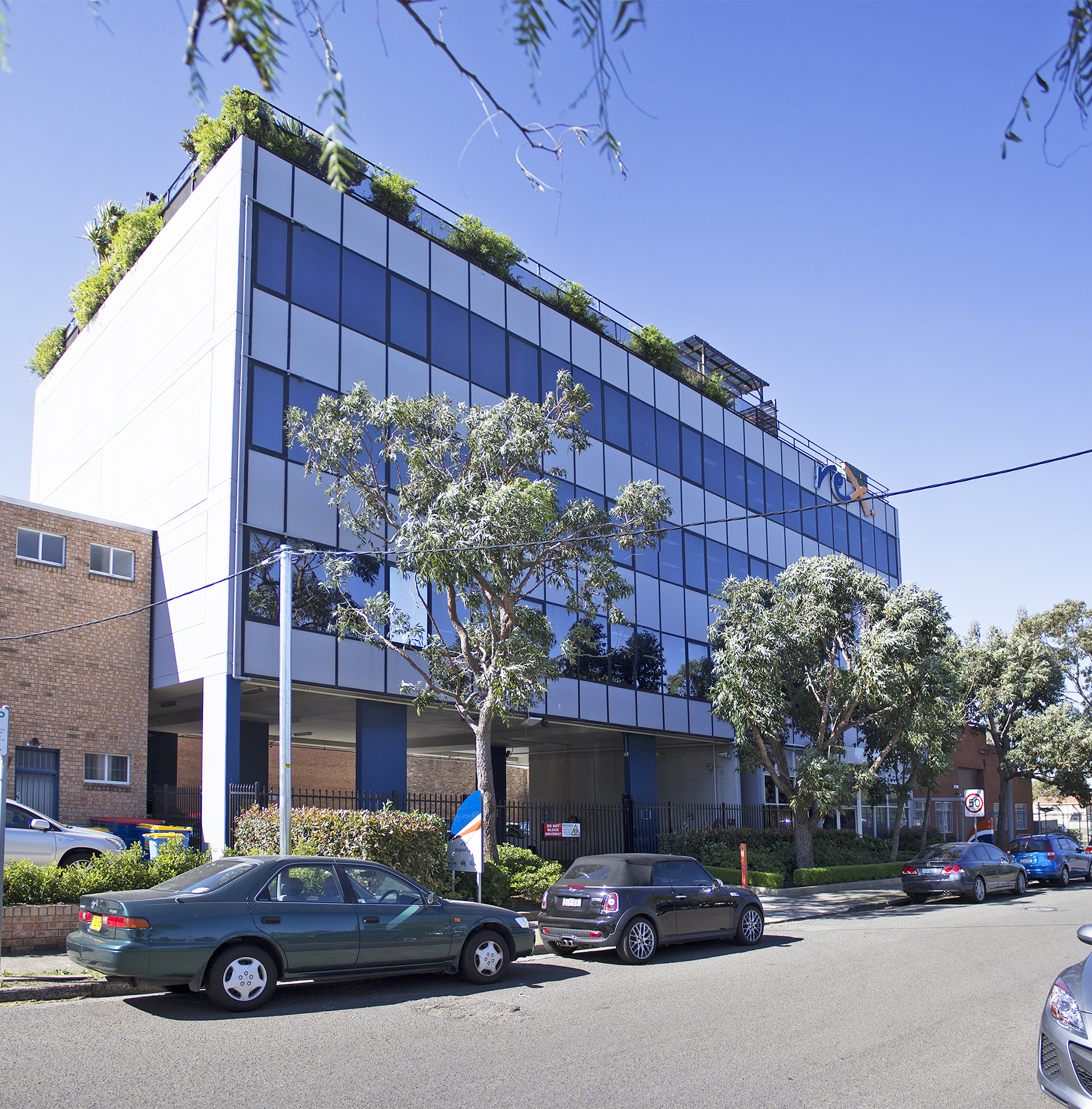 Regional Express Head Office located on 81-83 Baxter Road in Mascot.